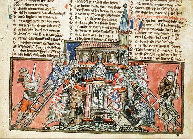 The Crusaders capture Antioch (Godfrei+Robert II)